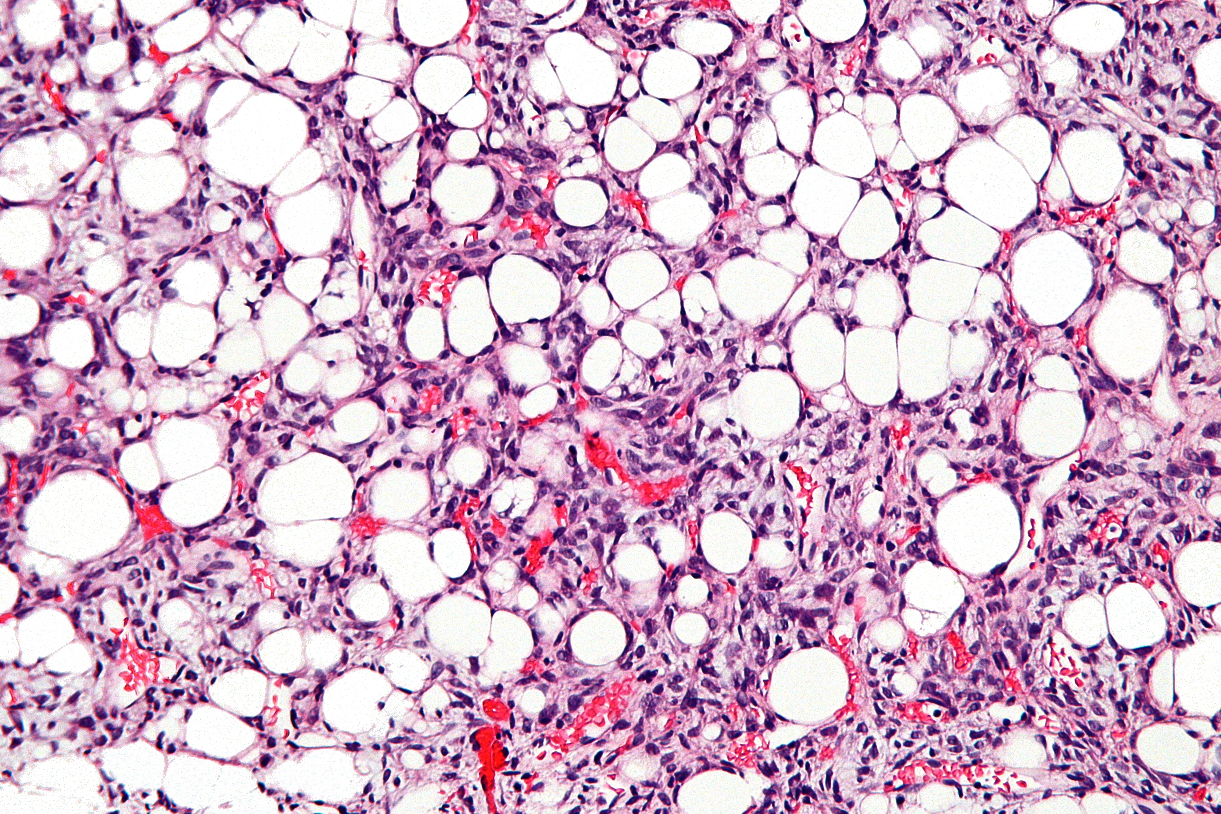 High magnification micrograph of a dedifferentiated liposarcoma. H&E stain. Related images Intermed. mag. High mag. Very high mag. Very high mag.